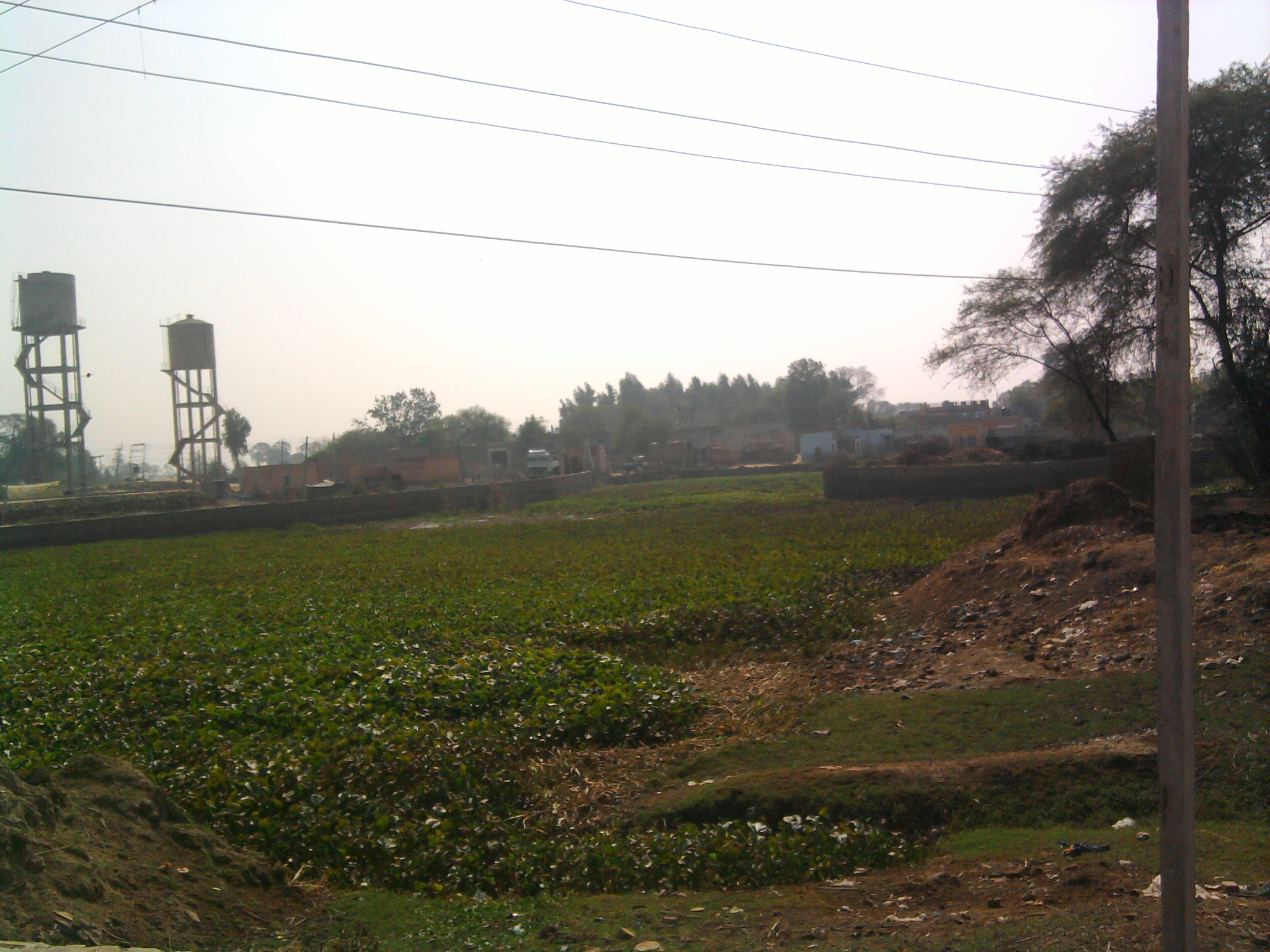 This photo was taken and uploaded by me for wikipedia.This photo shows you water pond near water-works. User:Shemaroo Shemaroo (User talk:Shemaroo talk) 14:07, 14 November 2013 (UTC) This photo was taken and uploaded by me for wikipedia.This photo shows you water pond near water-works. Shemaroo (talk) 14:07, 14 November 2013 (UTC)